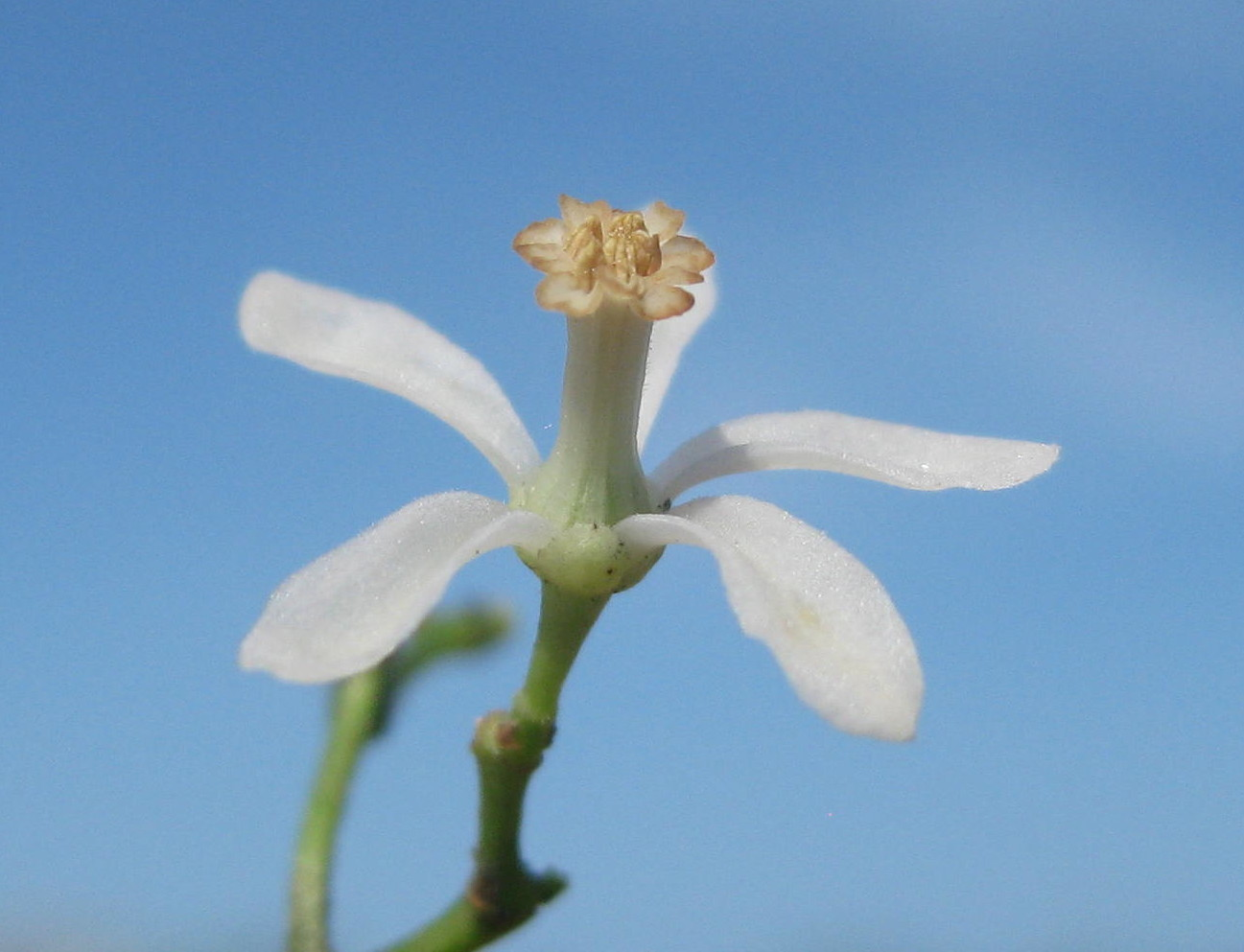 The tiny flower of the neem tree (Azadirachta indica, family Meliaceae). Leaves and kernels of this tree are used as natural insecticide. Leaves and bark used traditionally as anti-malaria.